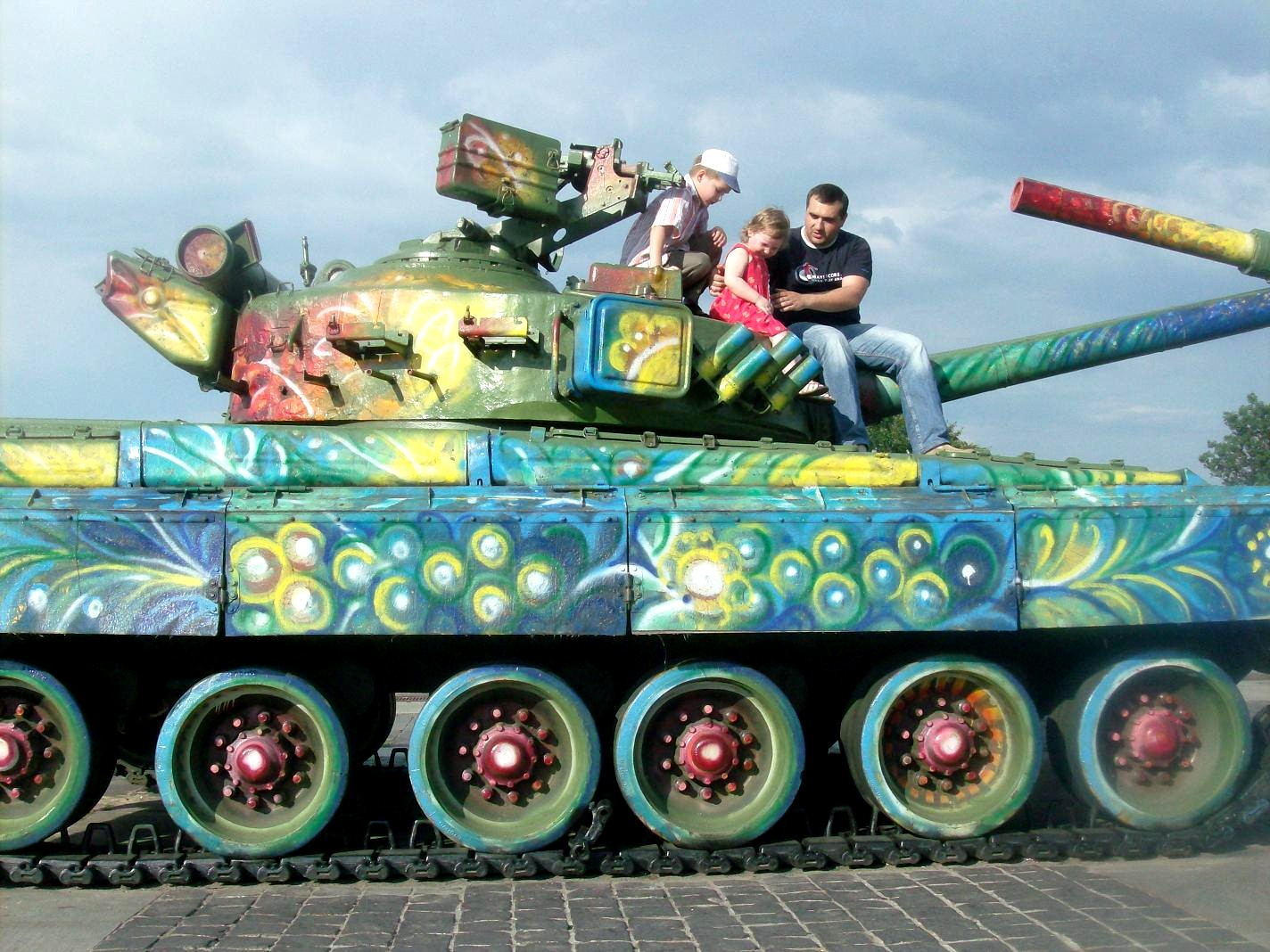 Painted battle tanks at the World War II Memorial, Kiev, Ukraine